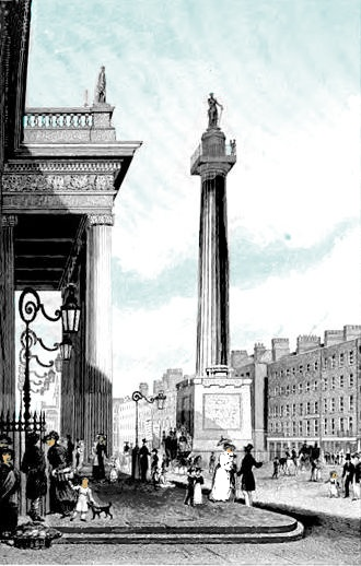 Nelson's Pillar and tjhe GPO portico, Sackville Street Dublin, depicted in 1830